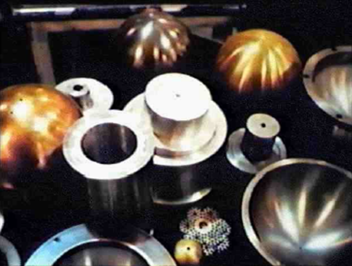 Internal nuclear components of the American B61 nuclear bomb. From Developing and Producing the B61, The Information Division, Albuquerque Operations Office, Video tape 0800072 (US Atomic Energy Commission, dated “1970s,” sanitized and declassified March 1998) 26:29 minutes. Image appears at 00:12:16 and 00:12:42. Gsponer credits the components as: "Main nuclear components of an early version of the B61 [31]: the fission primary (spherical and hemispherical parts), the fusion fission secondary (cylindrical parts), and the two ends of the radiation case. The primary has a levitated pit: the small sphere at the bottom center with a hole for the deuteriumtritium boost gas supply." This image was a screen capture originally made by John Coster-Mullen from the DOE film “Developing and Producing the B-61” and given to Gsponer back in 2004 for use in his research paper.